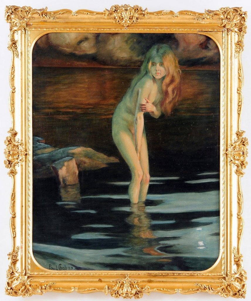 "La Baigneuse" Oil on canvas, 65 x 52 cm